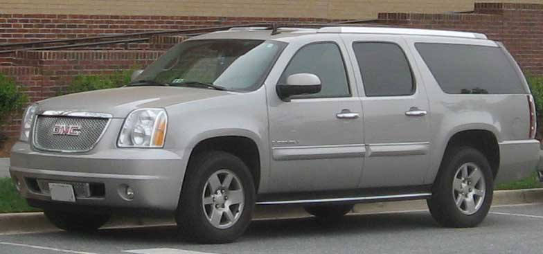 2007-2008 GMC Yukon XL photographed in College Park, Maryland, USA.